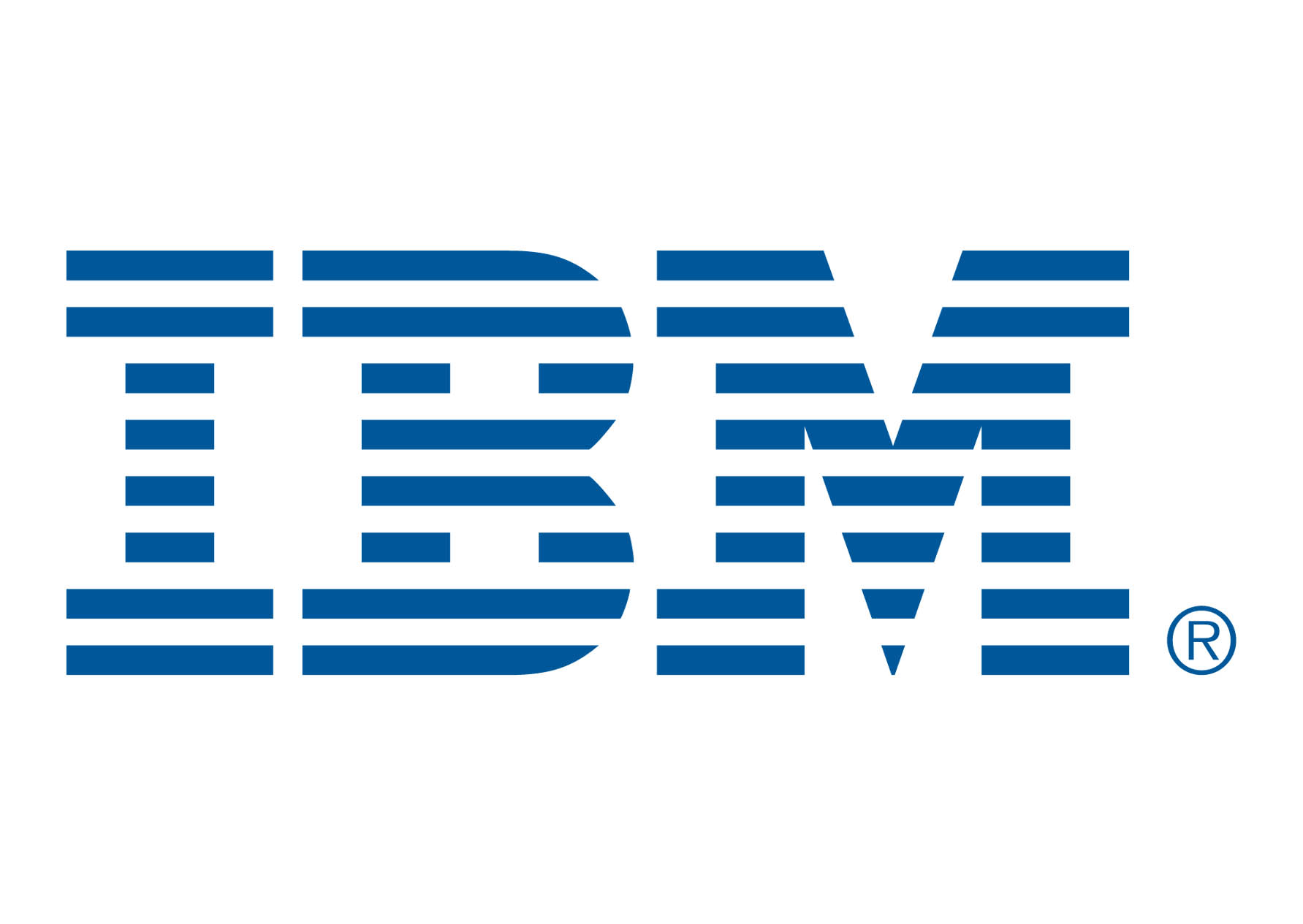 IBM Partner World